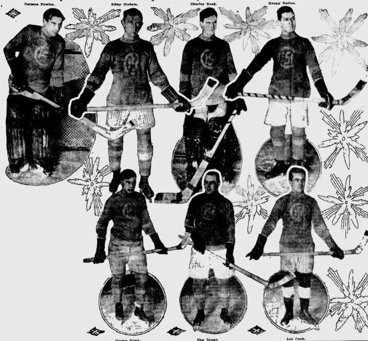 Spokane Canaries team photo from The Spokesman-Review on December 2, 1916. For the 1916–17 season of the Pacific Coast Hockey Association (PCHA).